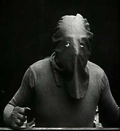 Film still from Zigomar by Victorin Jasset.